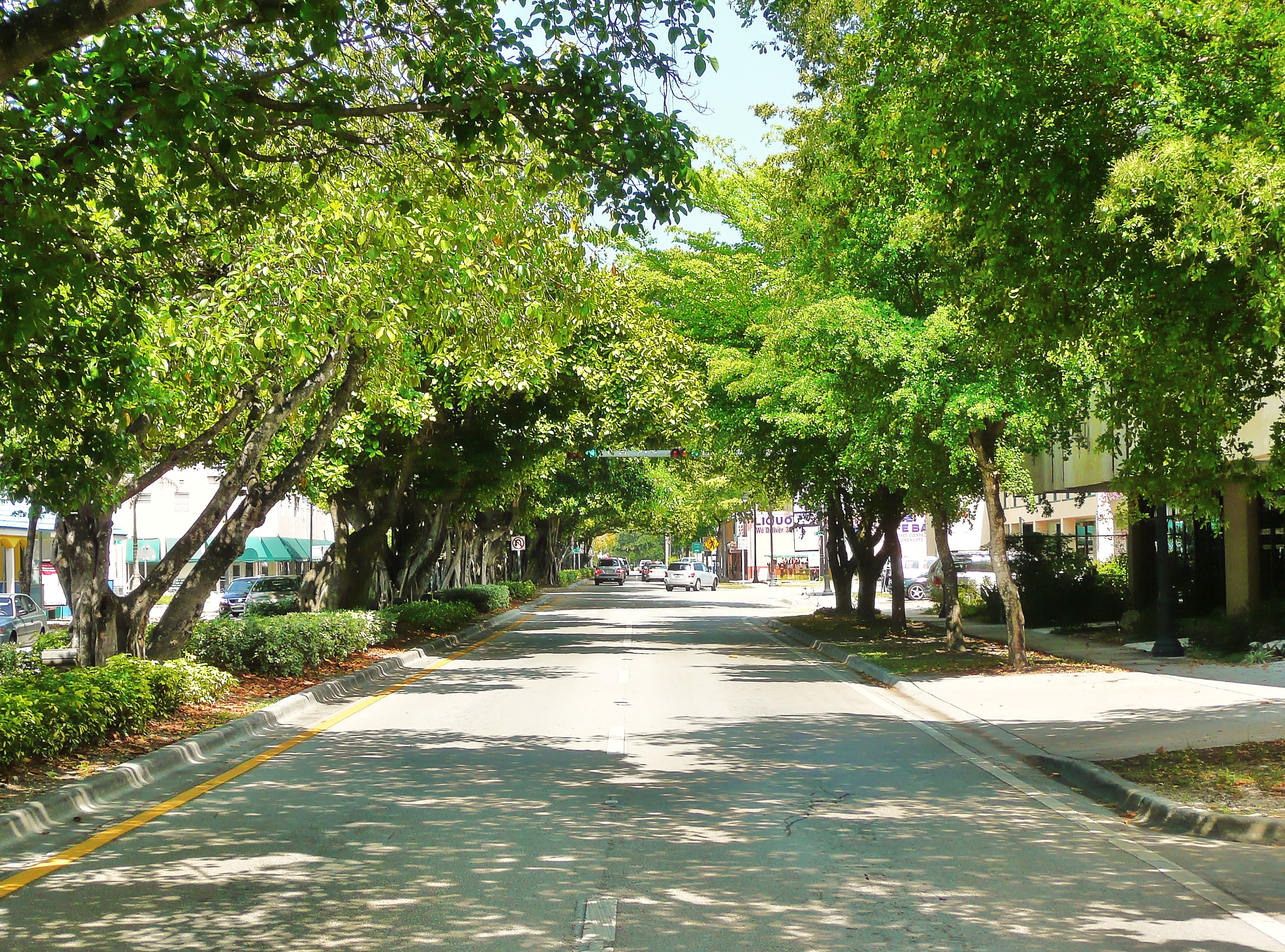 Digital photo taken by Marc Averette. Scenic Coral Way in Miami, Florida, United States.